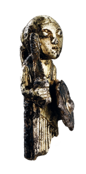 Photo of Valkyrie from Hårby. Silver figurine, height 3.4 cm. Dated Viking age and identified as armed Valkyrie. Found at isle of Fyn, Hårby, Denmark (2012). Displayed at National Museum of Denmark.